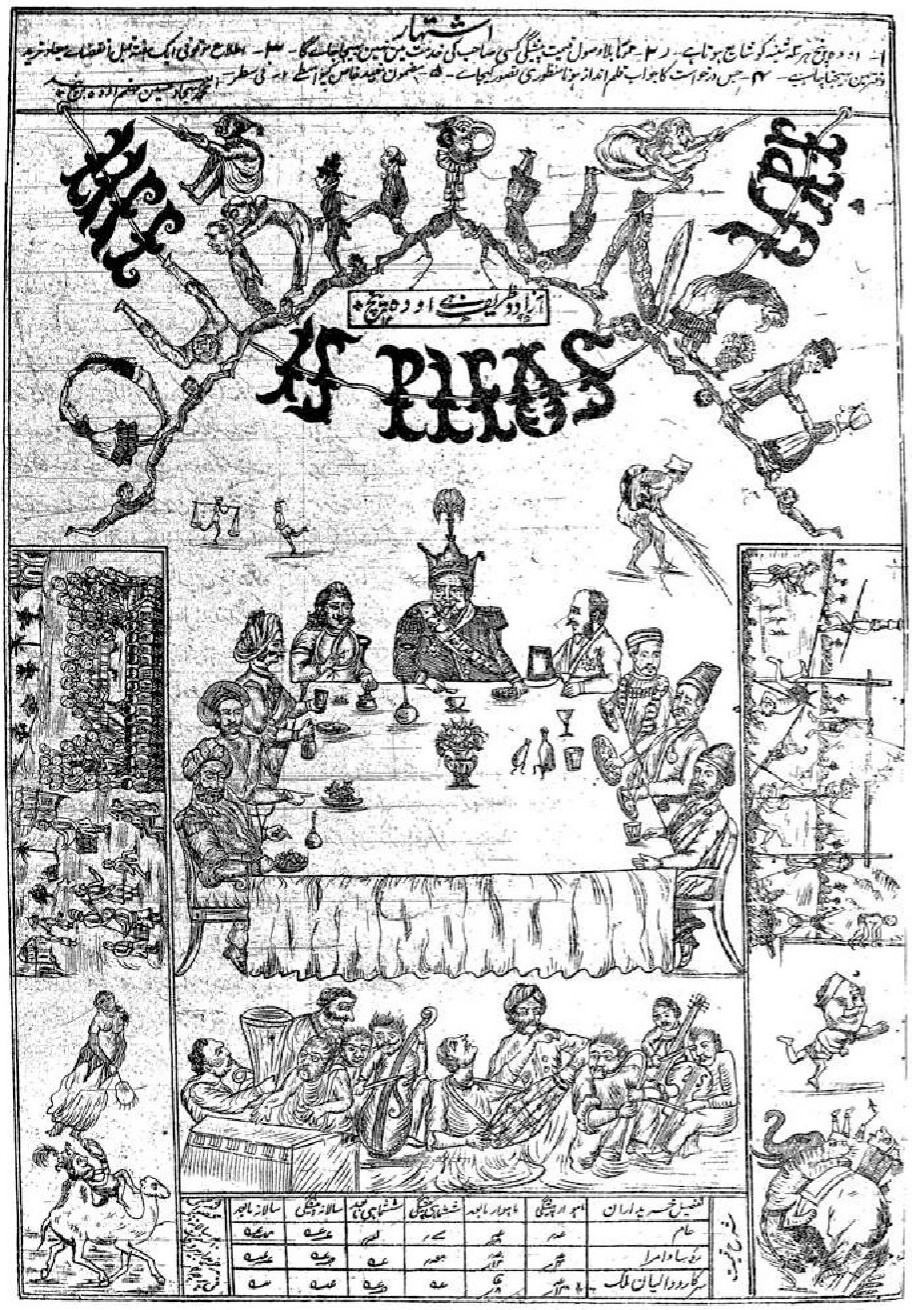 cover page of 'Avadh Punch', an Urdu satirical weekly published from Lucknow, India, 1878.